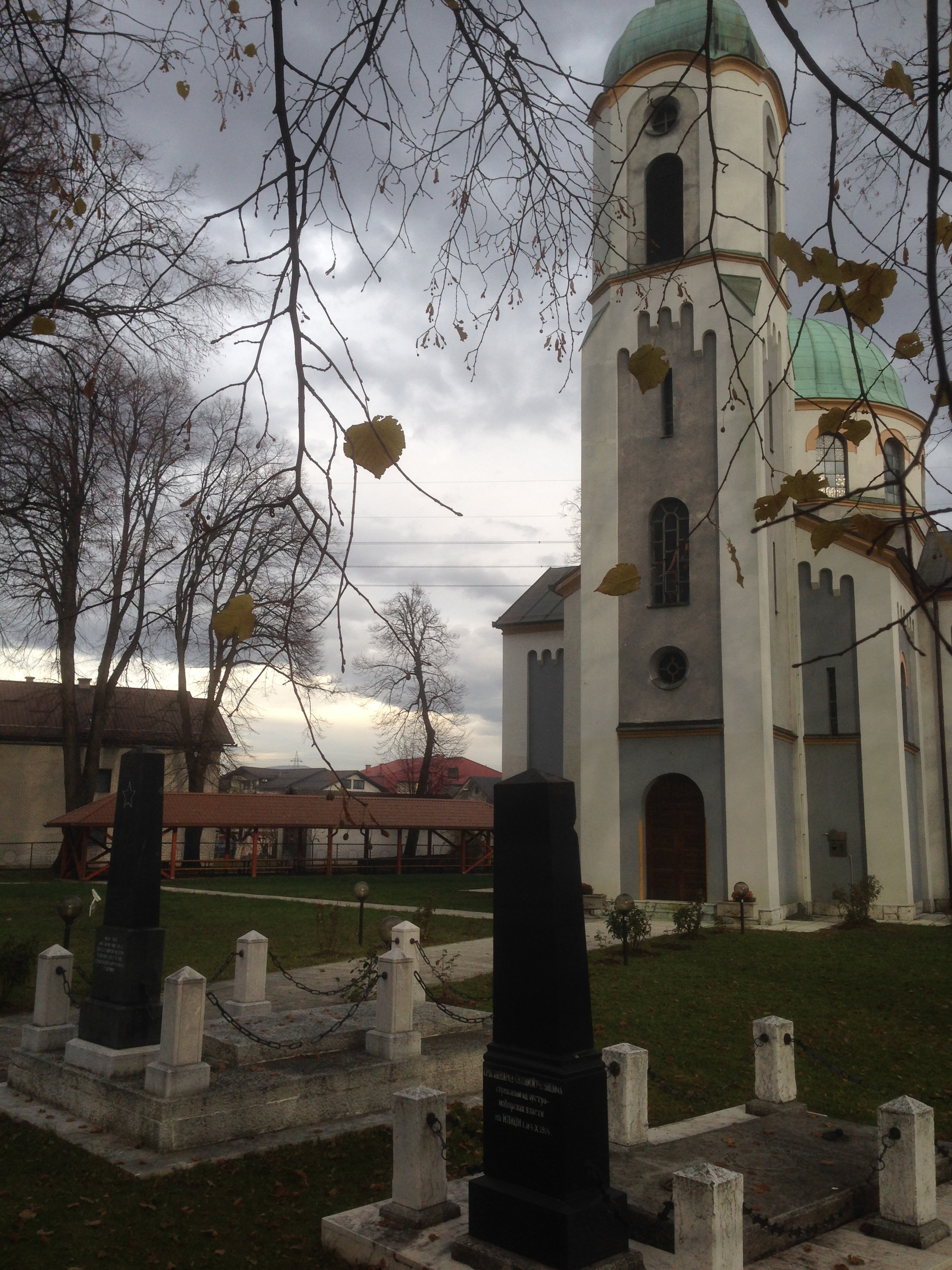 Curch and munuments